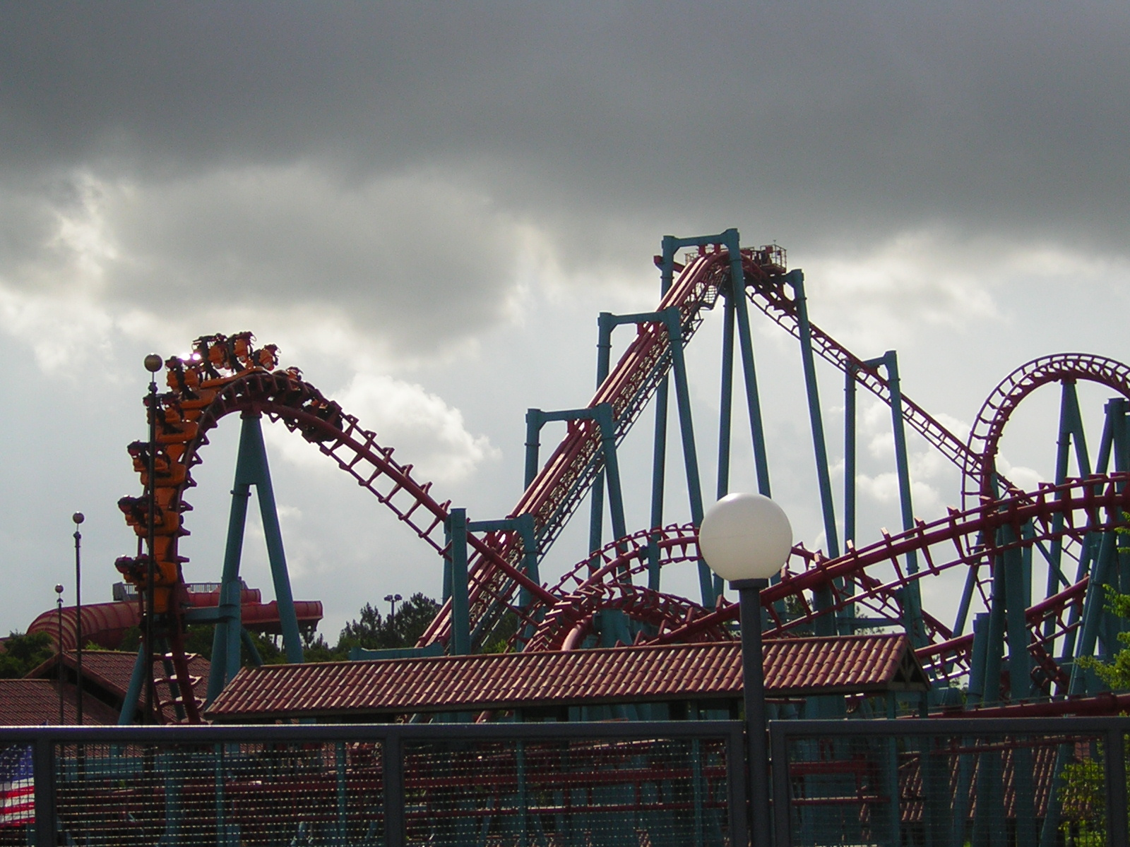 A shot of Serial Thriller (their ROUGH Vekoma SLC) from the main gate.Serial Thriller